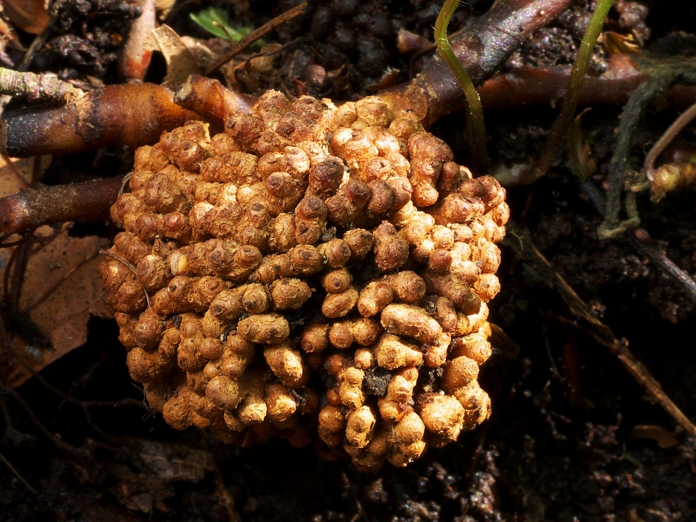 Frankia alni, Aktinorrhiza